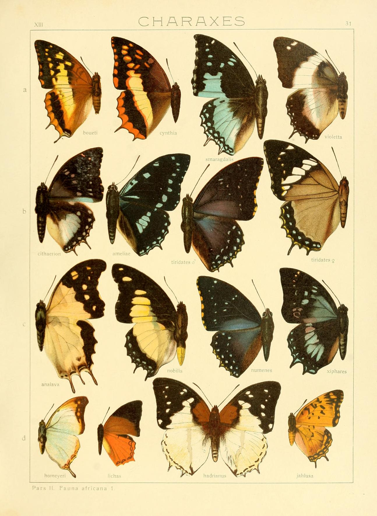 SeitzFaunaAfricanaXIIITaf31 Charaxes boueti Charaxes cynthia Charaxes smaragdalis Charaxes violetta Charaxes cithaeron Charaxes ameliae Charaxes tiridates Charaxes analava Charaxes nobilis Charaxes numenes Charaxes xiphares Charaxes homeyeri = Charaxes kahldeni Charaxes lichas = Charaxes pleione Charaxes hadrianus Charaxes jahlusa